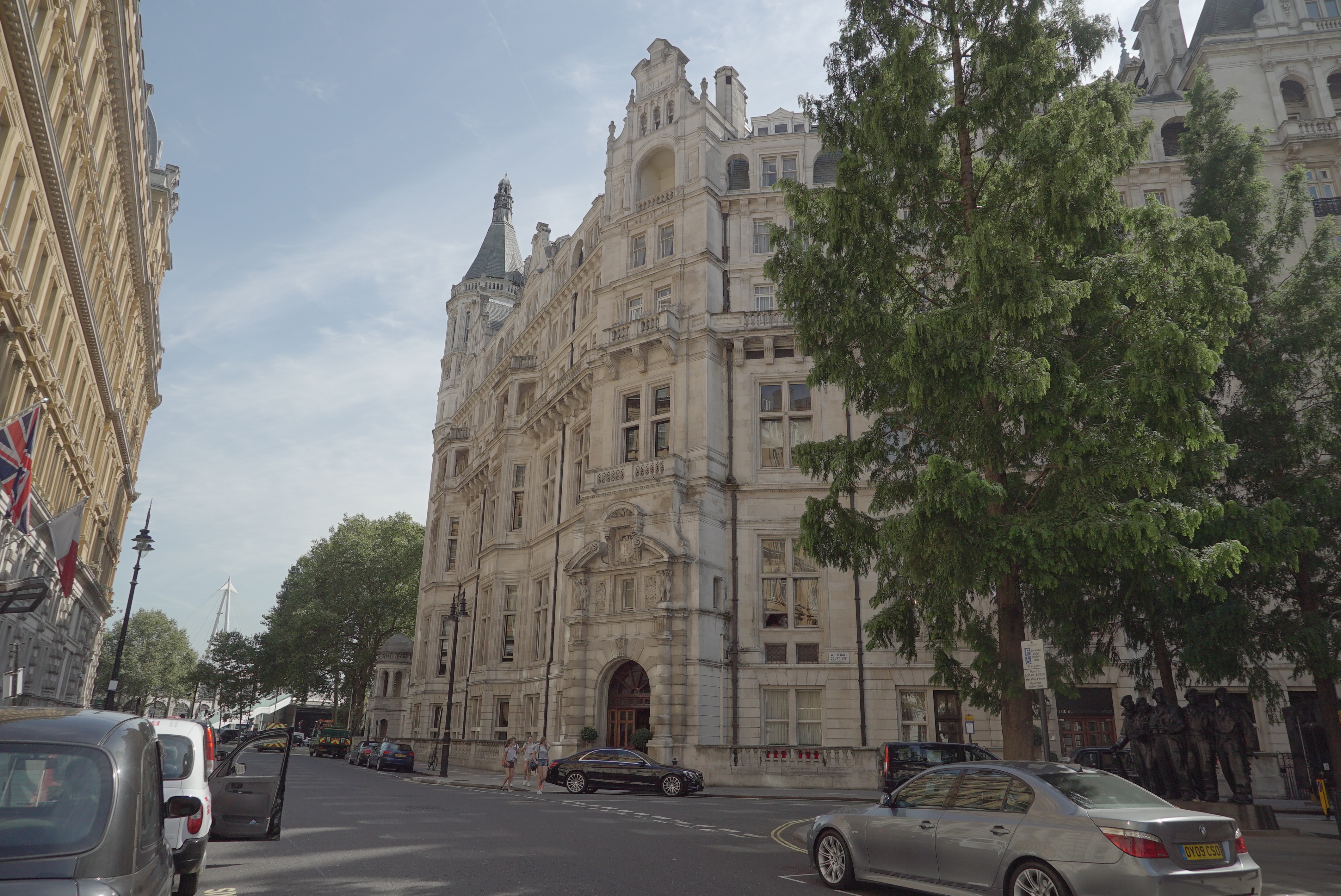 The exterior of the National Liberal Club